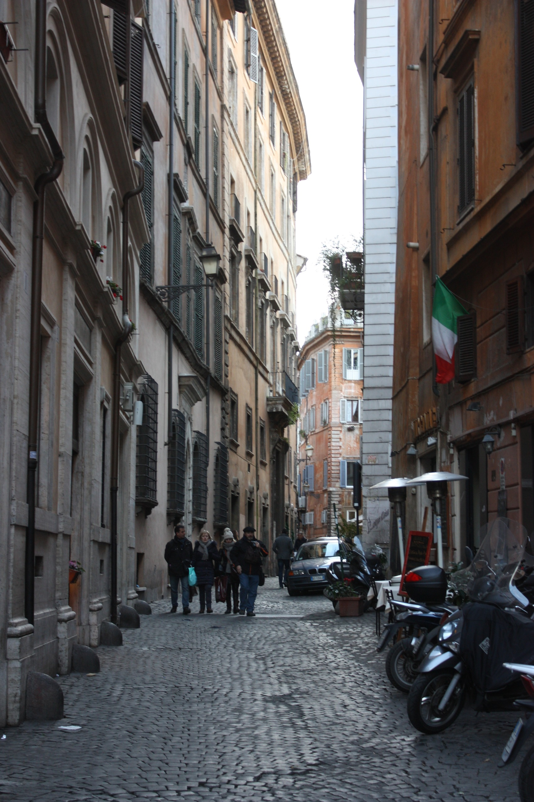 Rome, the street Via di Parione